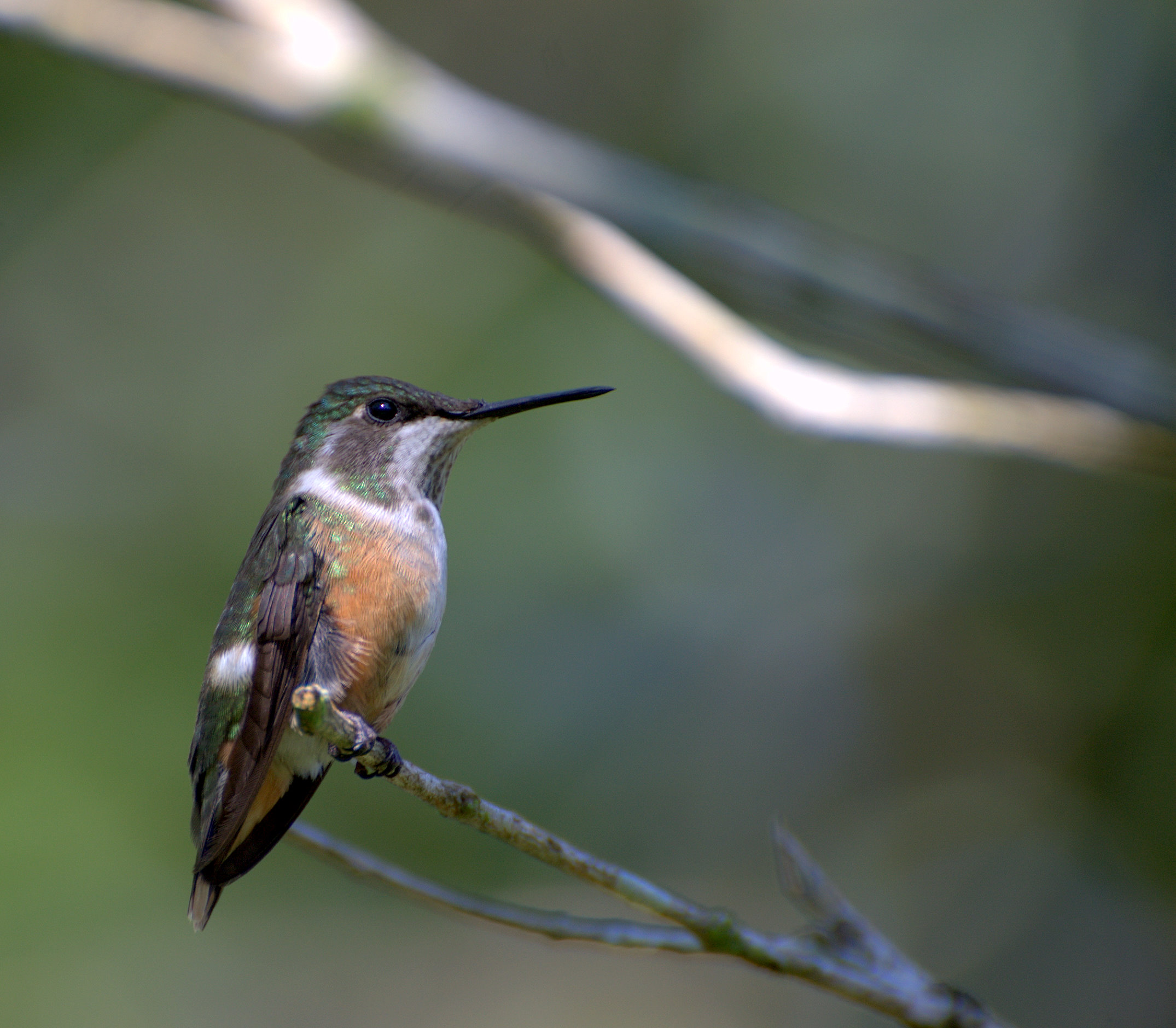 Female Amethyst Woodstar (Calliphlox amethystina), Chácara Antonio Wuo, Mogi das Cruzes-SP (Brazil)